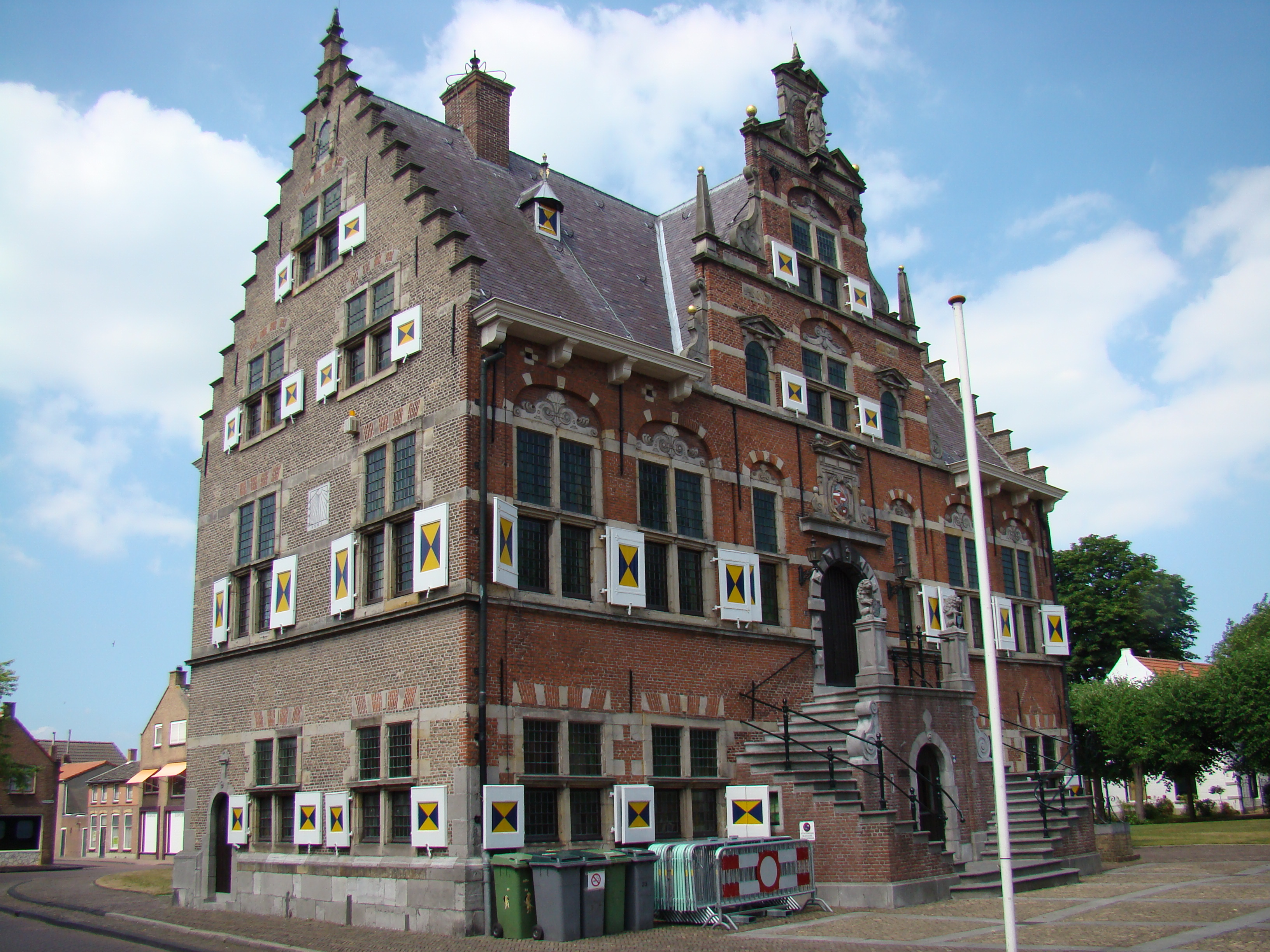 Townhal Klundert Netherlands